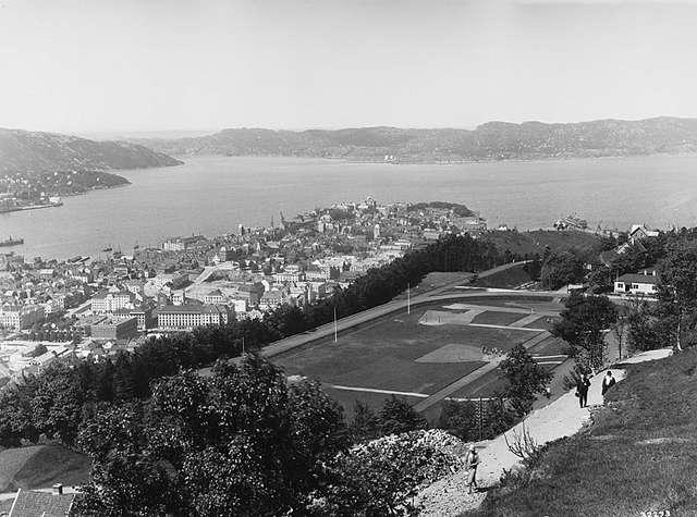 Skansemyren idrettsplass, a track and field venue in Bergen, Norway